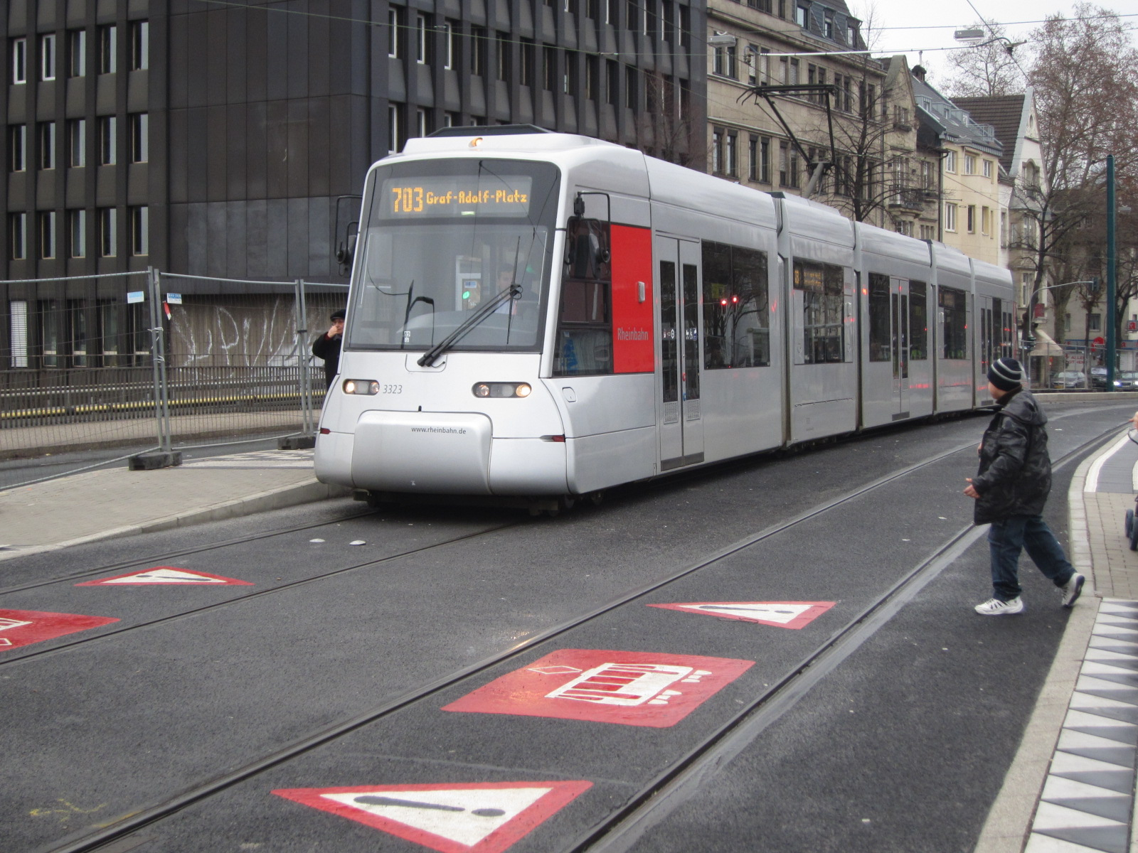 Low floor tram NF8U at second christmas day